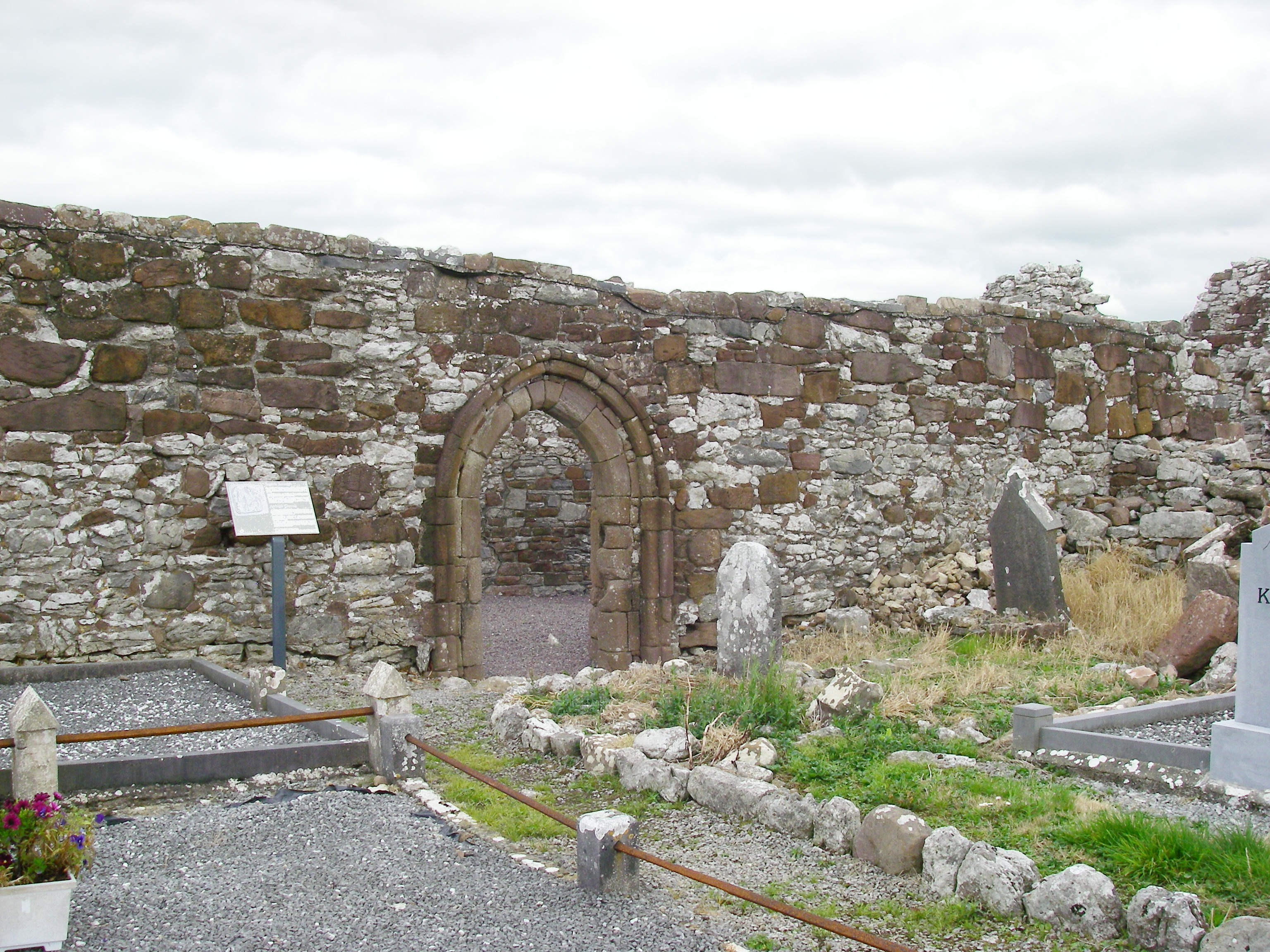 Annagh Church